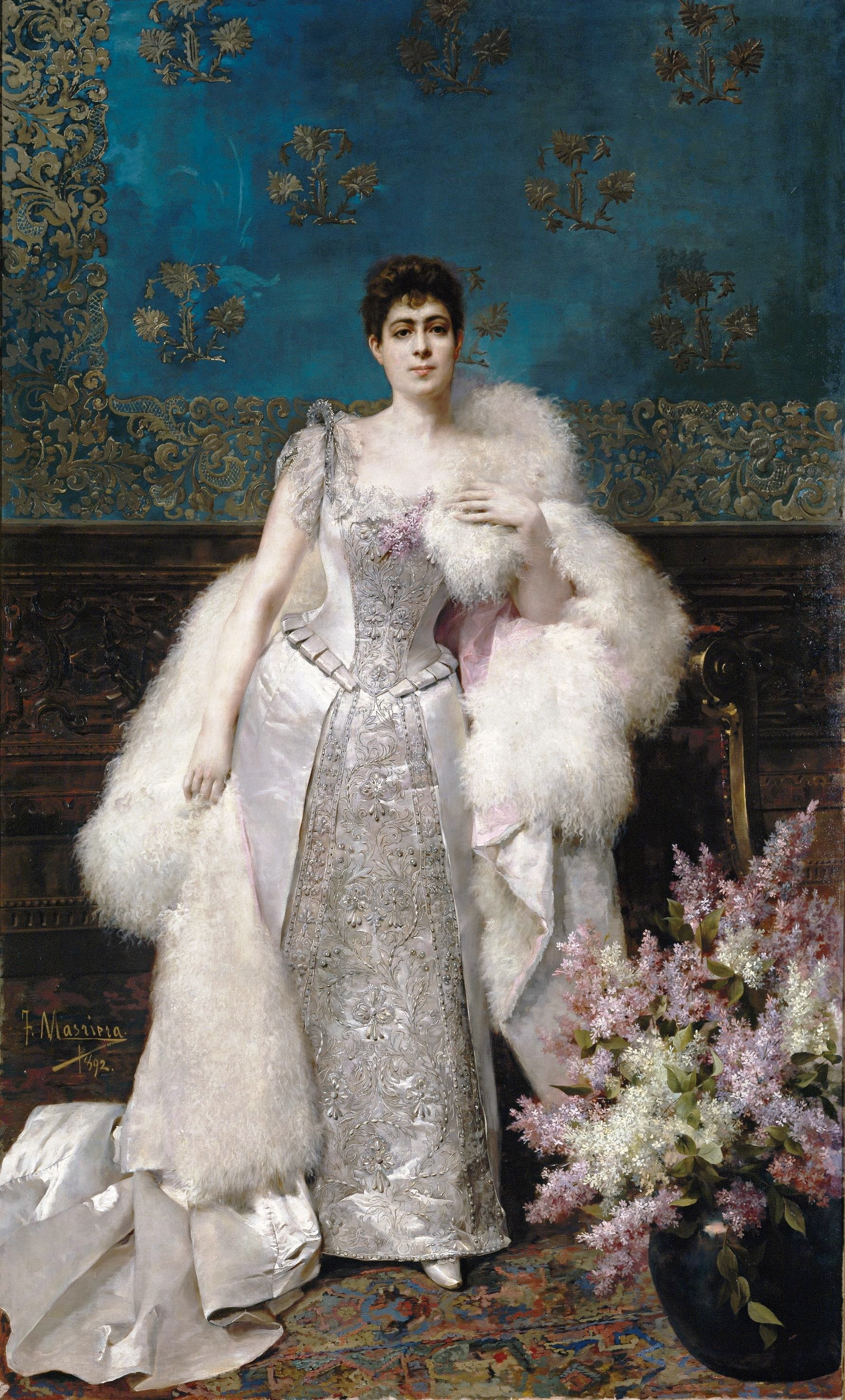 Francisca Aparicio y Mérida, Marquesa consort of Vistabella (1858-1943). She married Justo Rufino Barrios in 1874; Barrios was President of Guatemala from 1873 until his death in the battle of Chalchuapa in 1885. After his death, she married Jose Martinez de Roda, first Marquess of Vistabella, in New York.